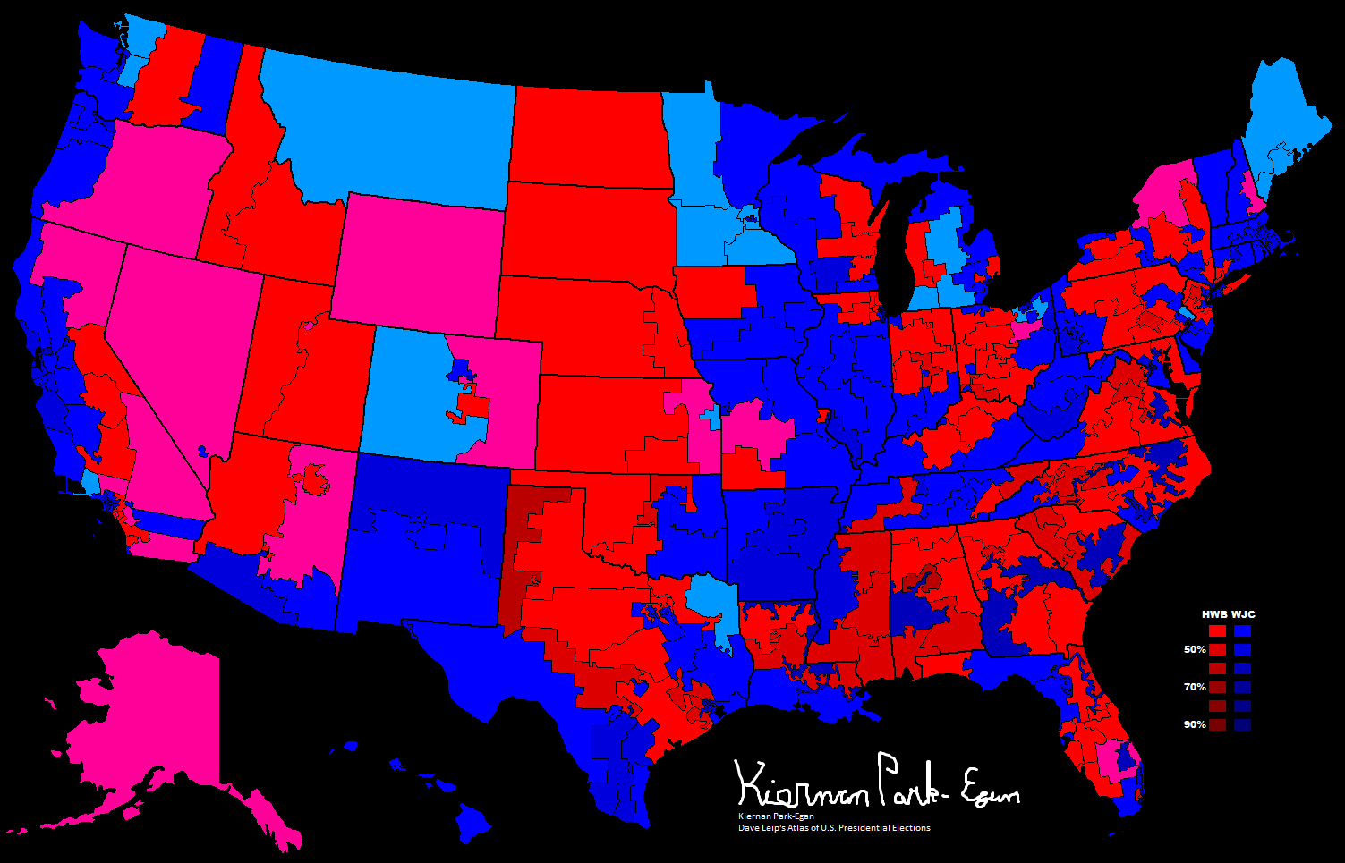 This map shows the results of the 1992 Presidential Election by Congressional District.